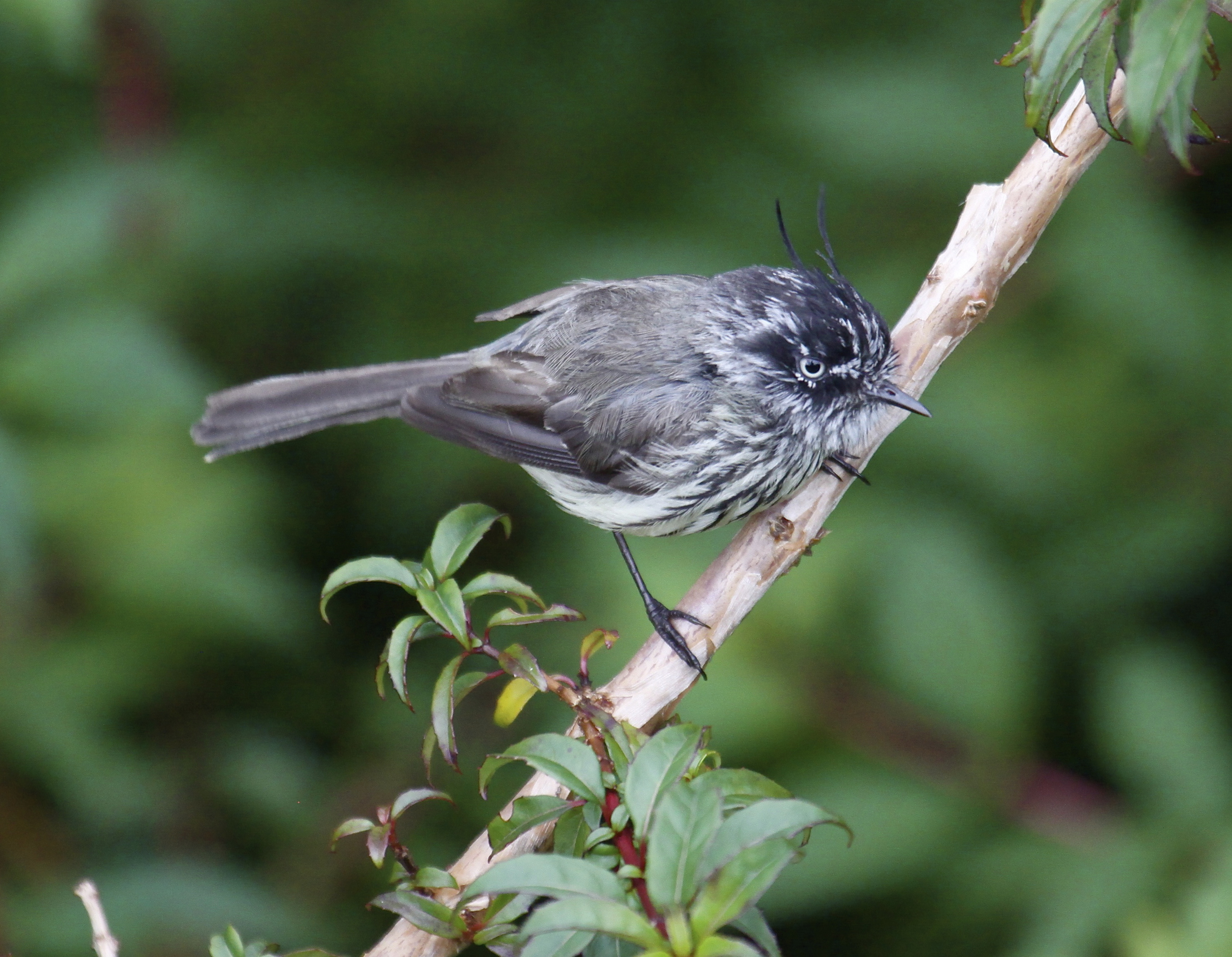 Tufted Tit-tyrant (Anairetes parulus) Puerto Aisen, Chile